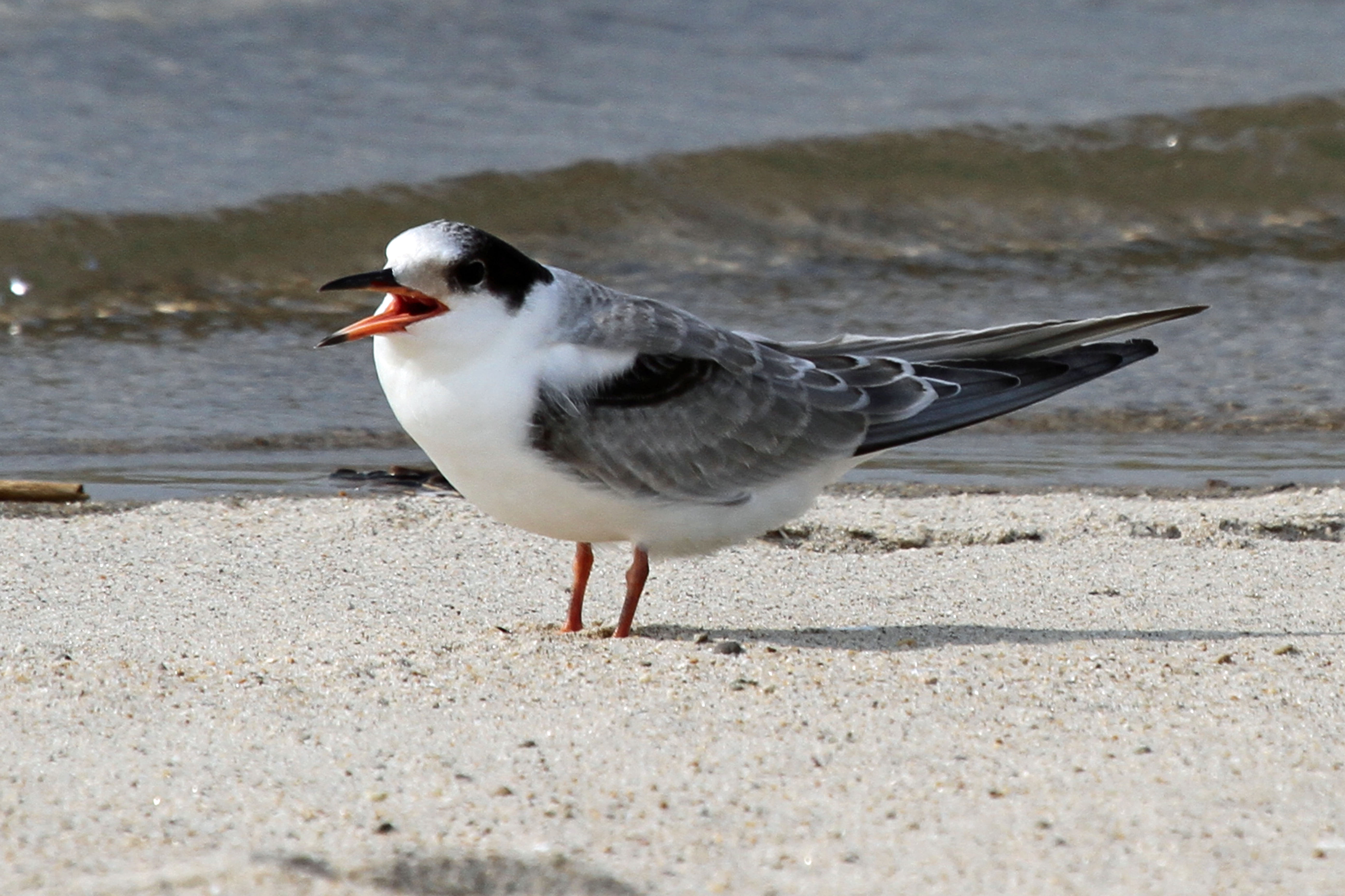 A juvenile Common Tern on the Atlantic shore, Massachusetts, USA.